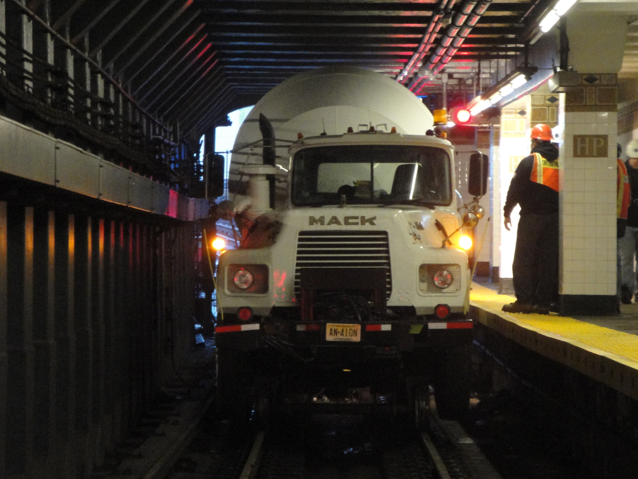 This is the first time we have used a crane to lower a cement truck onto tracks and into a tunnel. It's part of the vital work we're doing on weekends on the No. 7 line that will bring CBTC to the line and provide better and more reliable service.